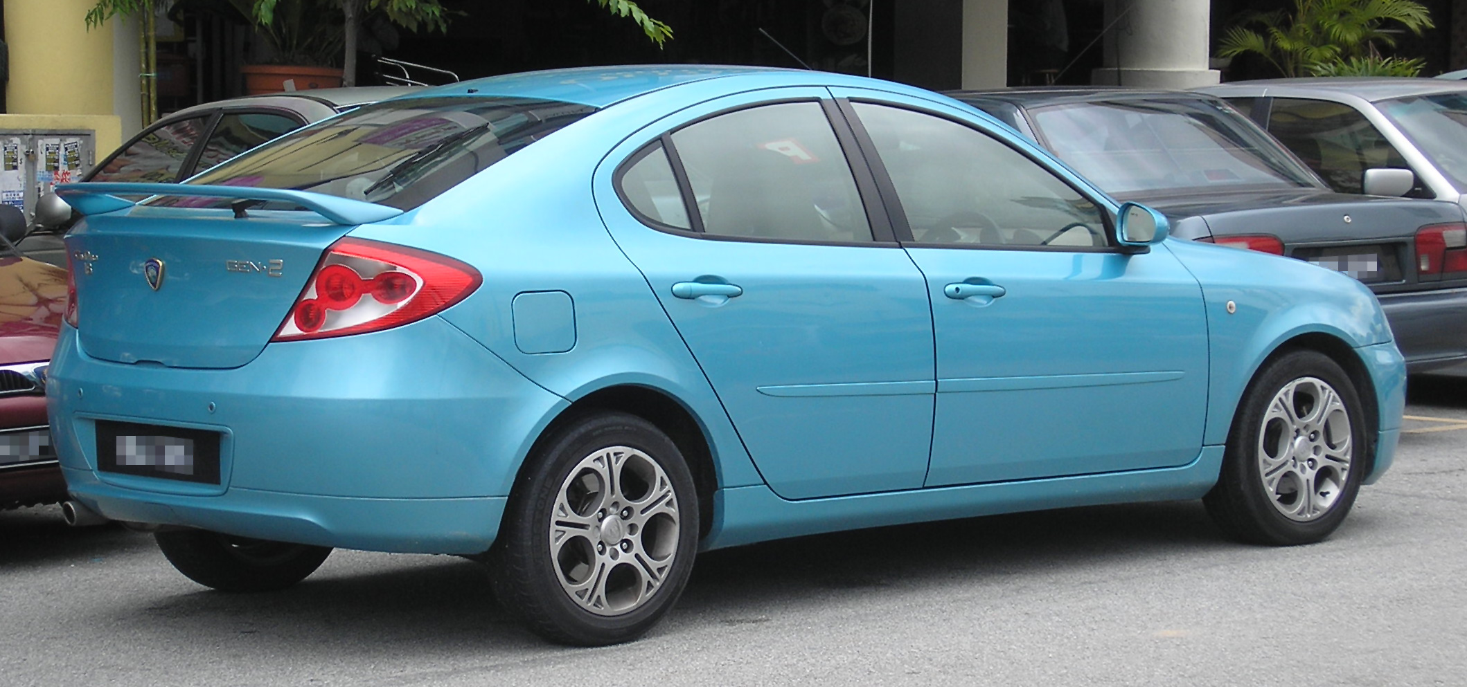 Rear-side shot of a Proton Gen.2, in Serdang, Selangor, Malaysia.